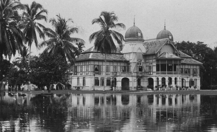 Palace of the Sultan of Langkat during a flood, Tanjungpura